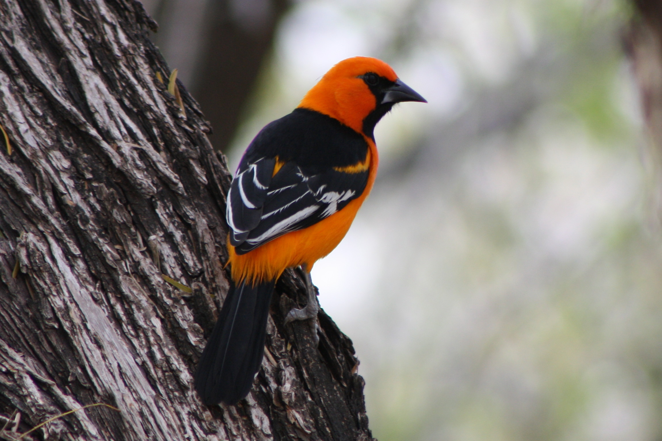 Altamira Oriole (Icterus gularis) taken in Bentsen State Park, Mission, Texas